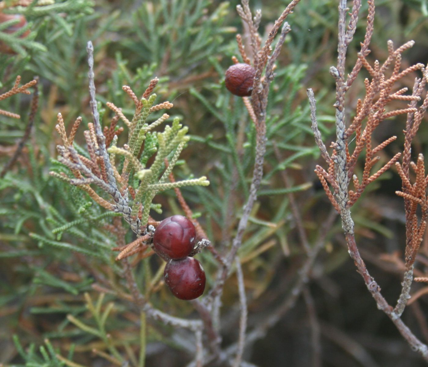 Juniperus phoenicea, Zypressengewächse (Cupressaceae) - Italien/Italia/Italy: Kalabrien/Calabria, Prov. Crotone, Capo Rizzuto S Crotone